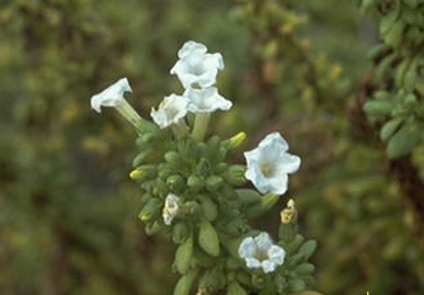 Flowers and Habit of Nolana galapagensis